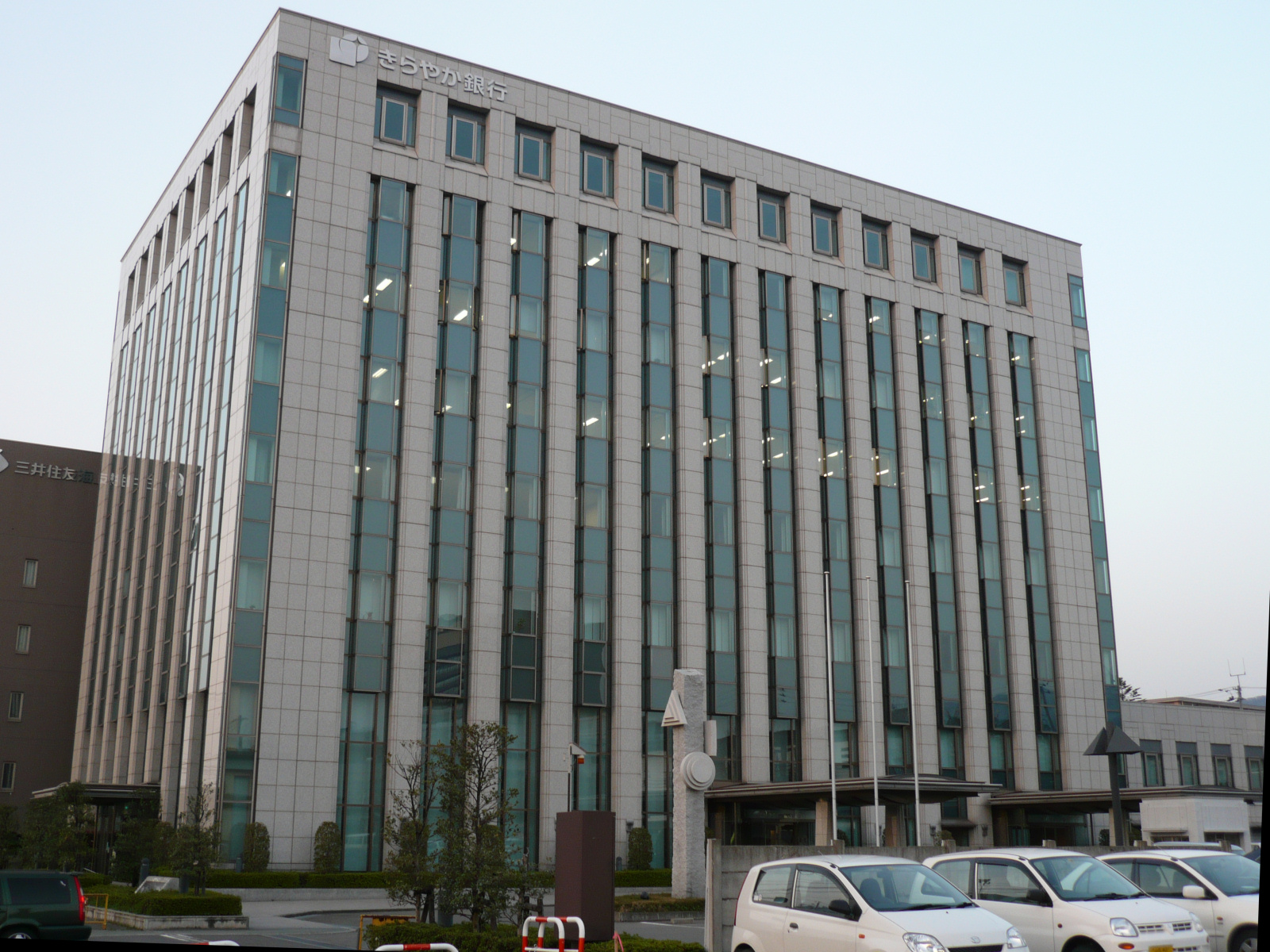 kirayaka Bank(Kirayaka Ginko) in Yamagata City,Yamagata Prefecture,Japan